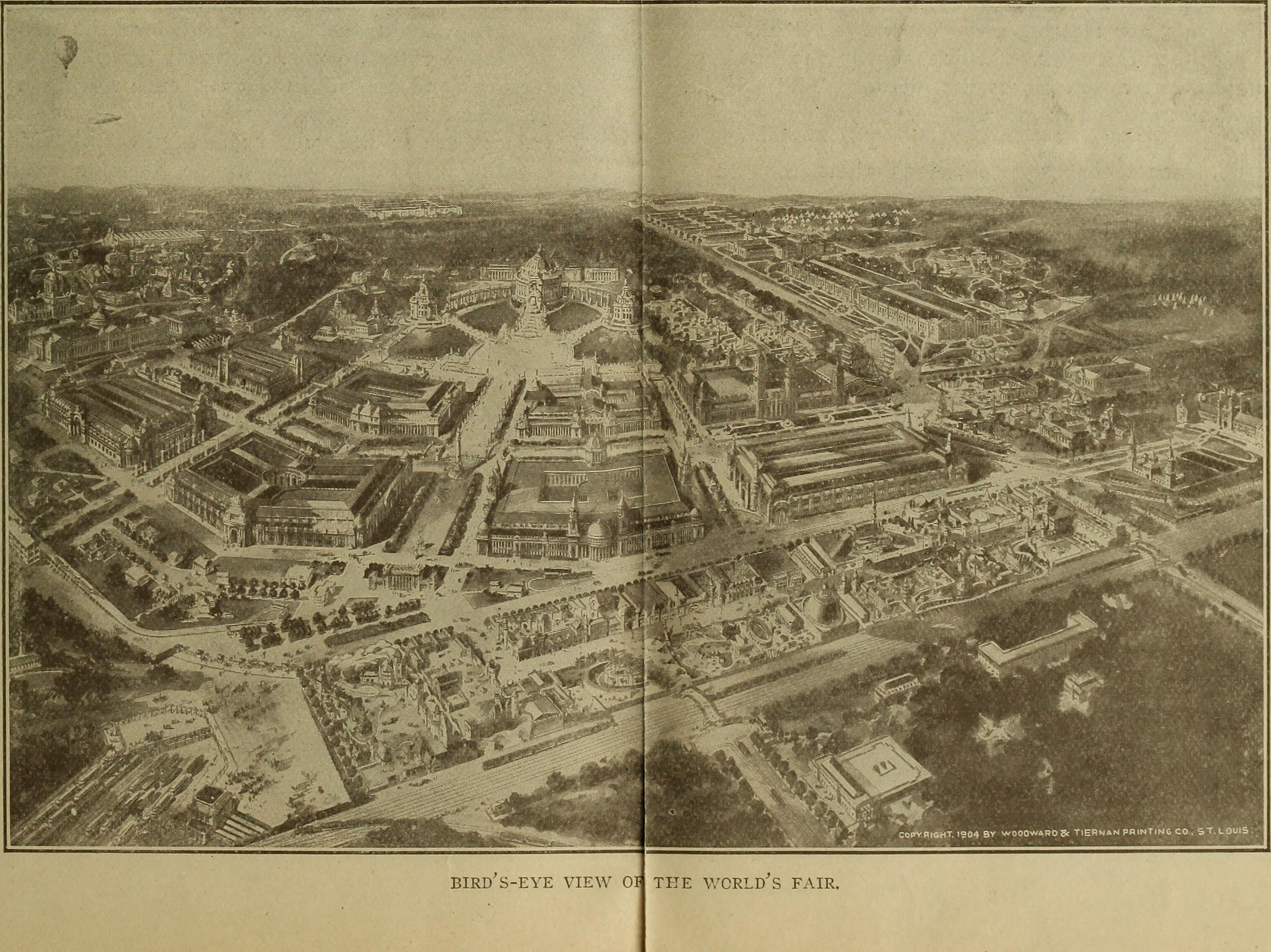 Title: Louisiana purchase exposition, St. Louis, 1904 Year: 1904 (1900s) Authors: Subjects: Louisiana Purchase Exposition (1904 : Saint Louis, Mo.) Publisher: (St. Louis, Woodward and Tiernan printing co.) Text Appearing Before Image: expositions, the amplitude of this one in St. Louis may be best expressed by comparison. The grounds of theLouisiana Purchase are a mile and -a quarter wide by nearlytwo miles long. An ordinary city of 20,000 population withall its homes and industries might be set down within the sixmiles of fence which surround the Exposition. While theColumbian Exposition at Chicago had 633 acres, including itslakes and lagoons, the Louisiana Purchase Exposition has 1,240acres. The exhibit space of the principal buildings at Chicagowas but little more than half the area supplied at St.Louis. Immense Structures.—Exhibit Palaces at the comingWorlds Fair are each the equivalent of six to ten ordinarycity blocks, and there are fifteen of them of enormous size,magnificent in their proportions, lofty and imposing, rich intheir architectural detail and sculpture embellishment. A triparound any one of several of the larger buildings means anexcursion of nearly a m.ile. In each big building there are (5) Text Appearing After Image: (6)